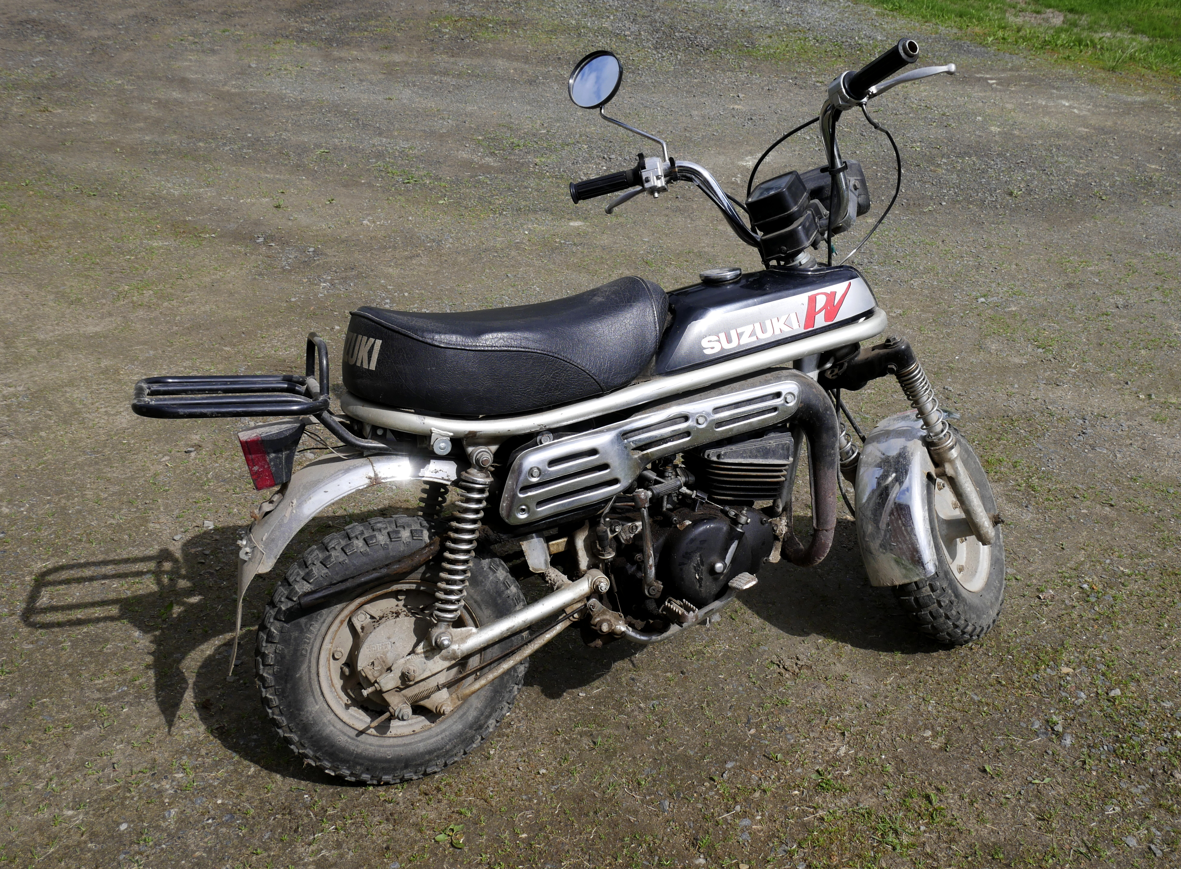 Suzuki PV50 1990 moped.